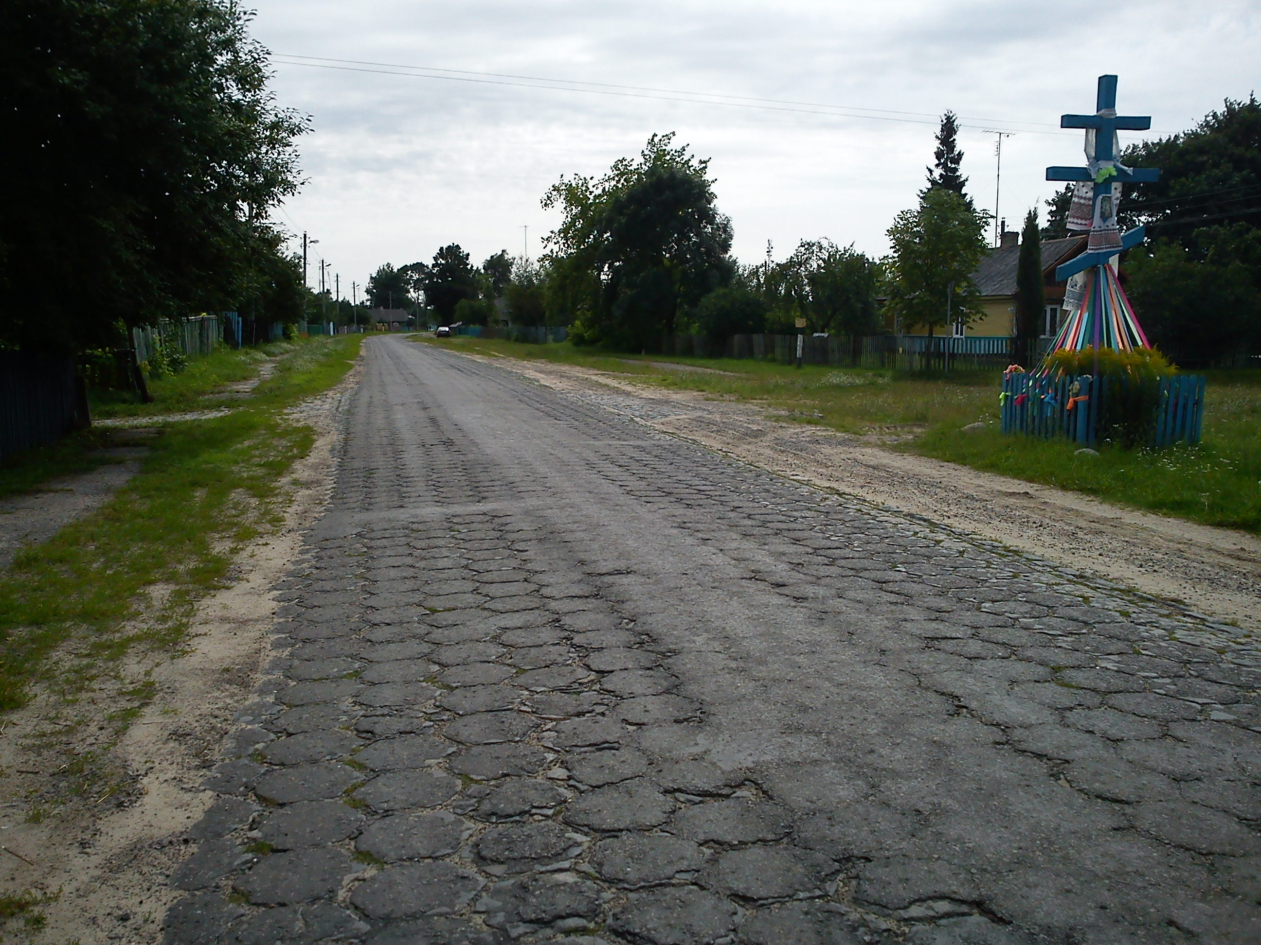 Main street of village Ogdemer of Brest province of Belarus